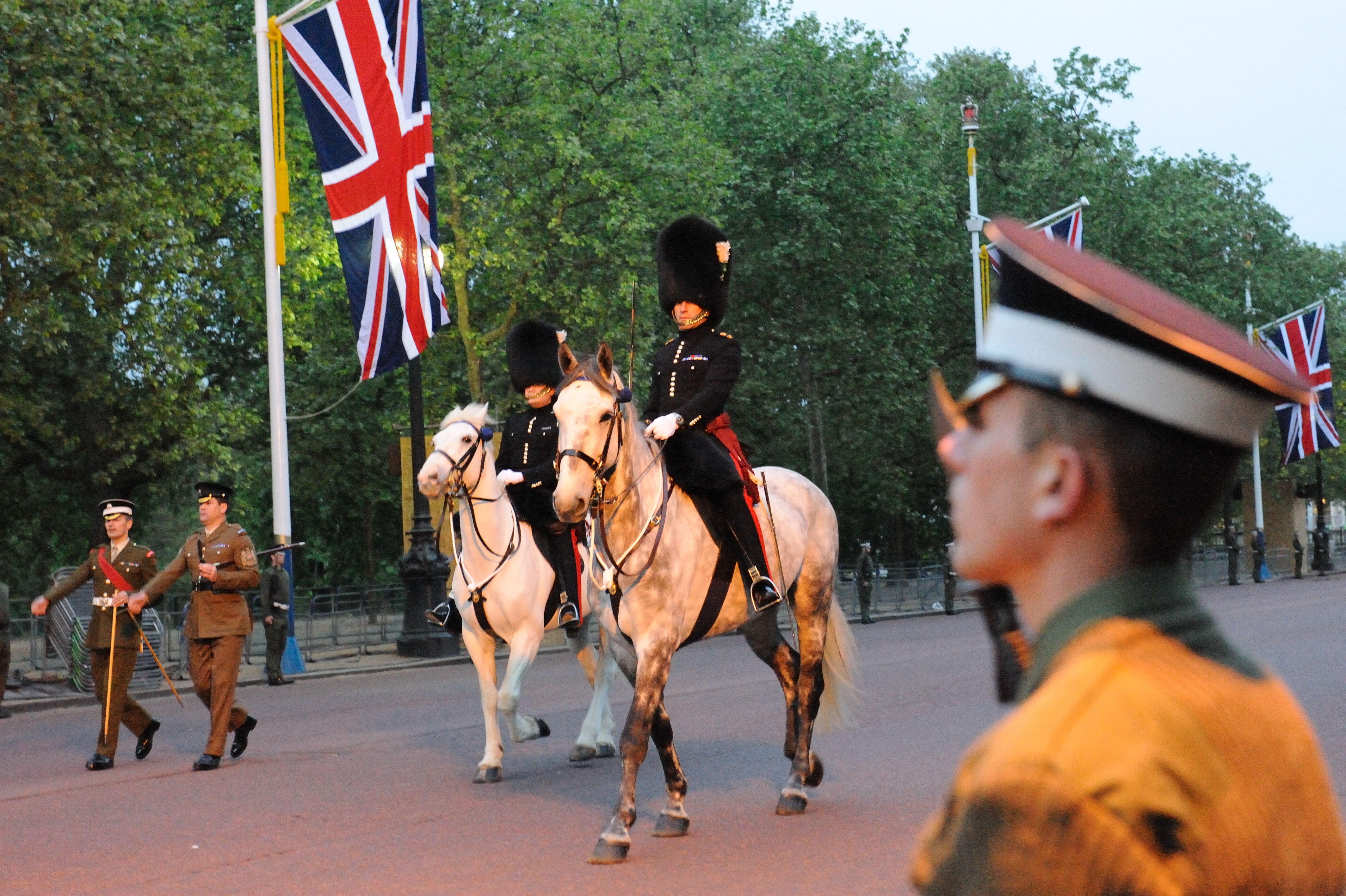 Royal Wedding rehearsal Wednesday 27th April 2011 - Wedding of Prince William of Wales and Kate Middleton